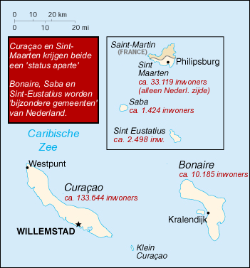 Political restructuring of the Netherlands Antilles.